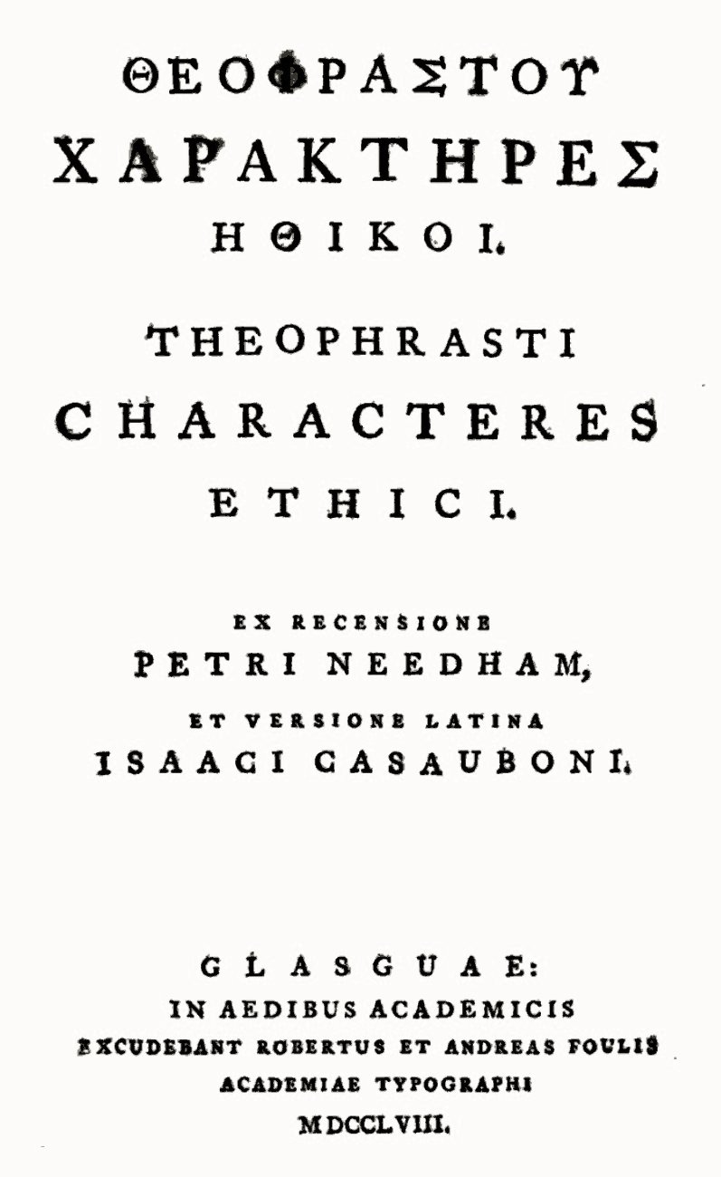 Theophrastus' Characters, in Greek and Latin. Edited by Peter Needham and Isaac Casaubon. 1758.